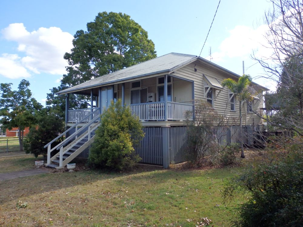 Residence exterior, from E (2015)